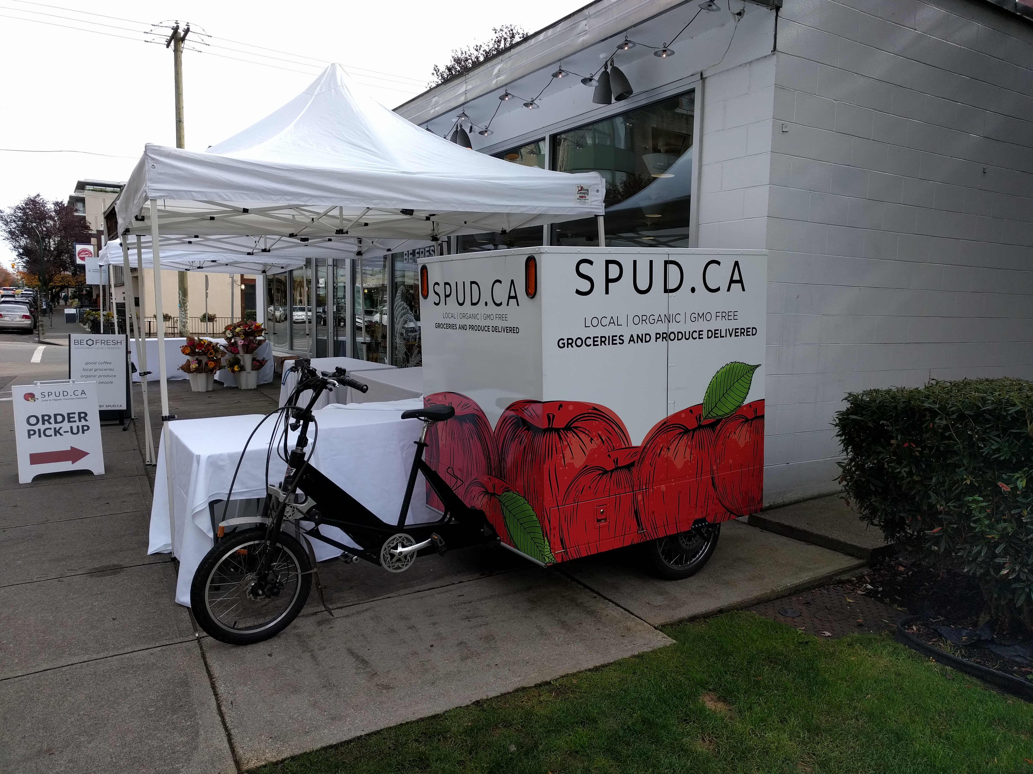 Sustainable Produce Urban Delivery's first retail location, located at 1900 West 1st Ave in Vancouver